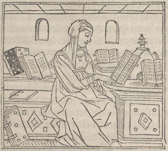 A woodcut showing Nogarola reading, made in 1497 in Ferrara thirty years after her death. De vita van Isotta Nogarola in de catalogus van Jacobus Philippus Bergomensis uit 1497.